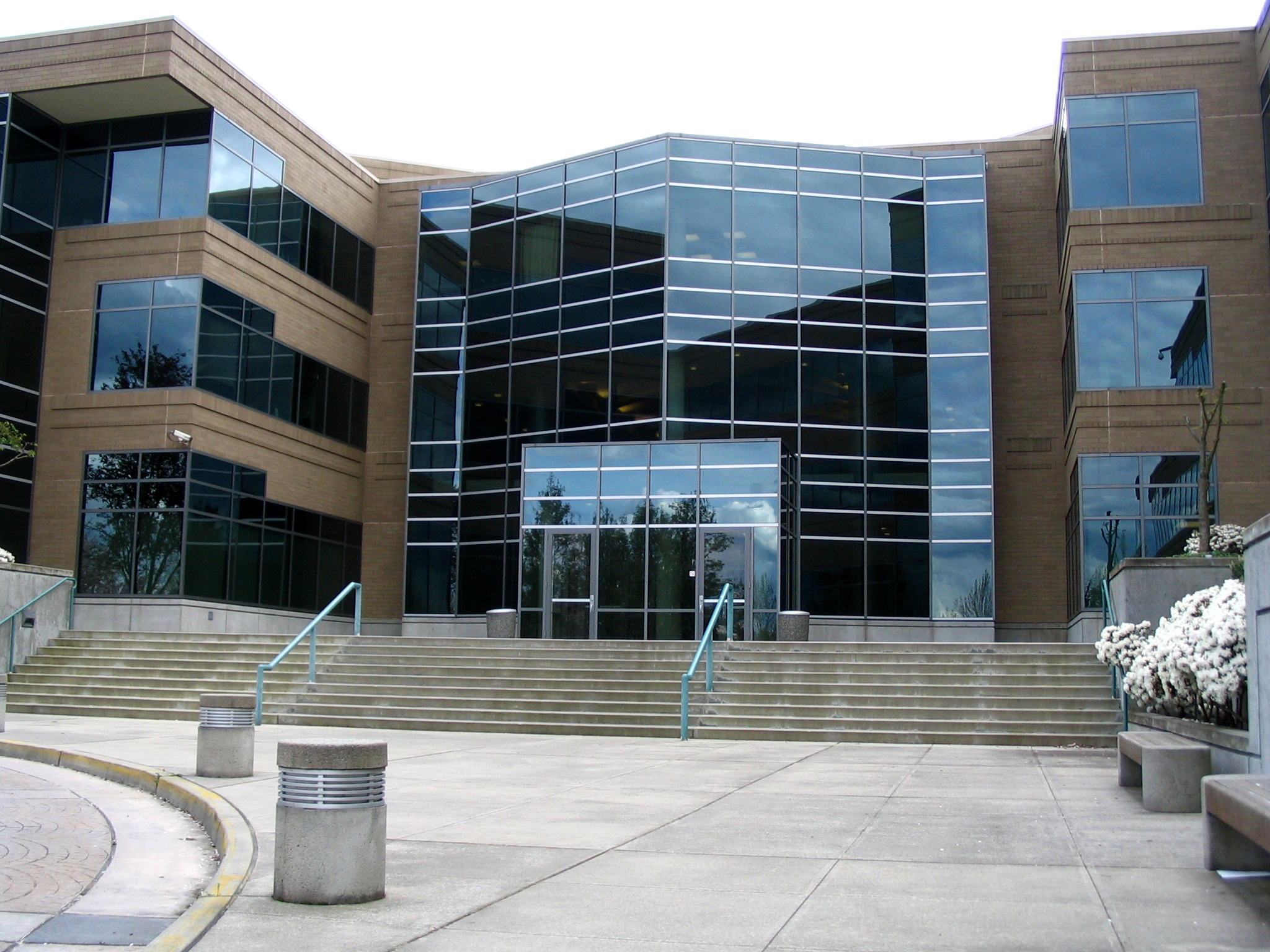 Front lobby entrance of building 17, one of the largest buildings on the Main Campus portion of Microsoft's Redmond campus. The circle in the lower-left is where cars drive up.